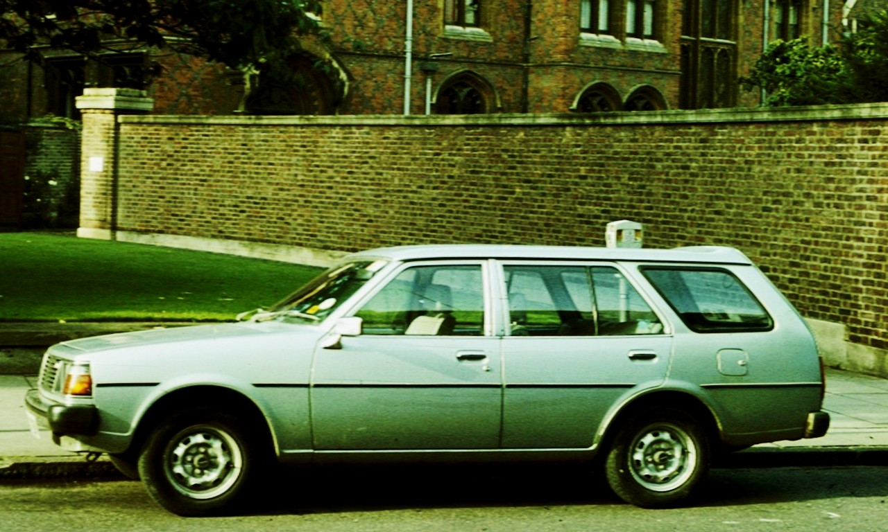 Mazda 323 estate first iteration in Cambridge